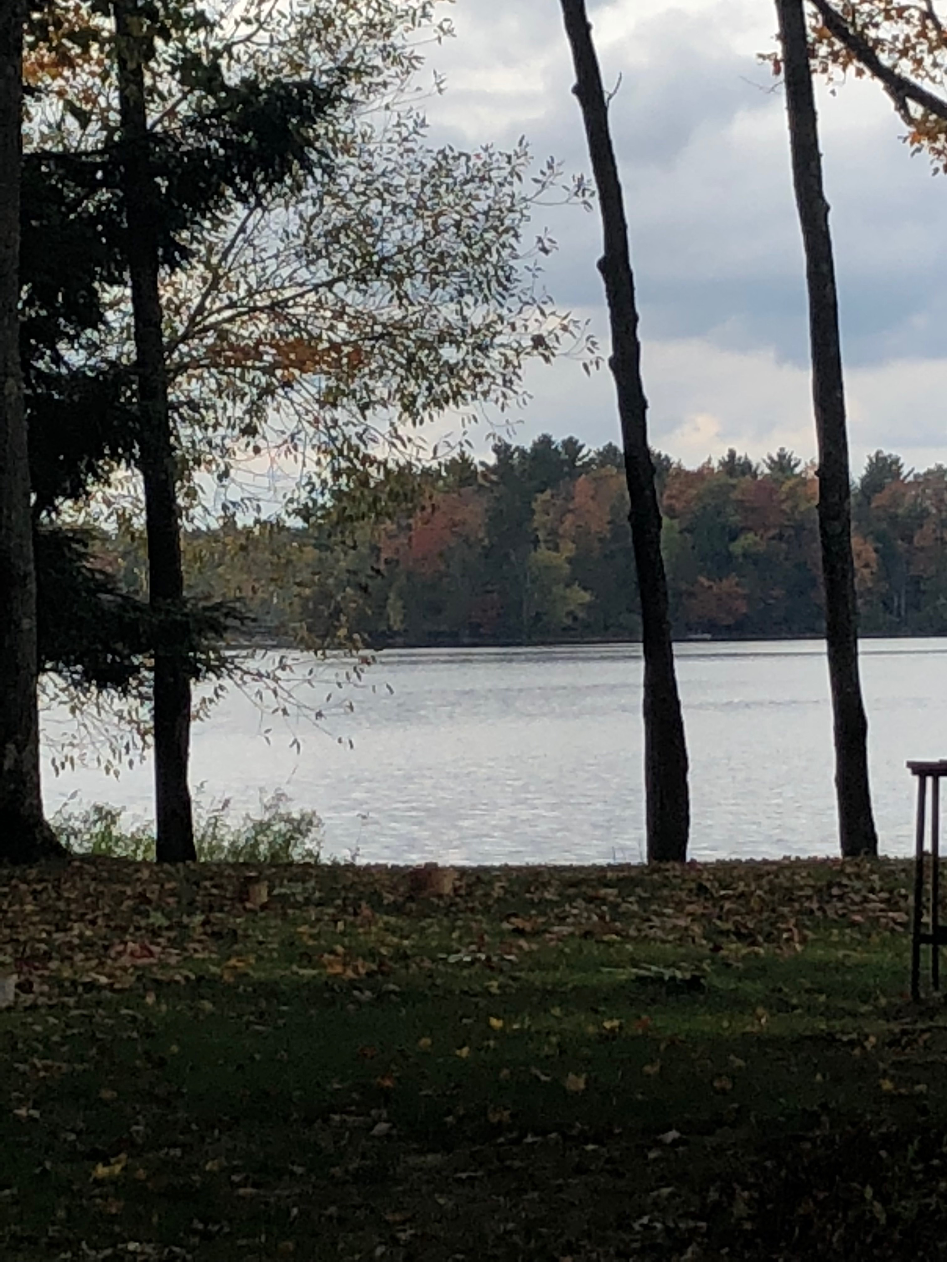 Eastern shore of Bass Lake in Grand Traverse County, Michigan (October of 2018)